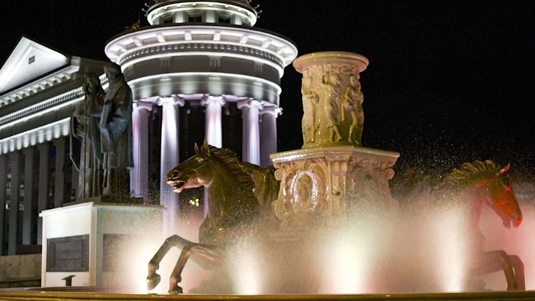 The picture shows a scene from the film Bigger Than Life by Adnan Softic. It is filmed in Skopje, capital of Macedonia.